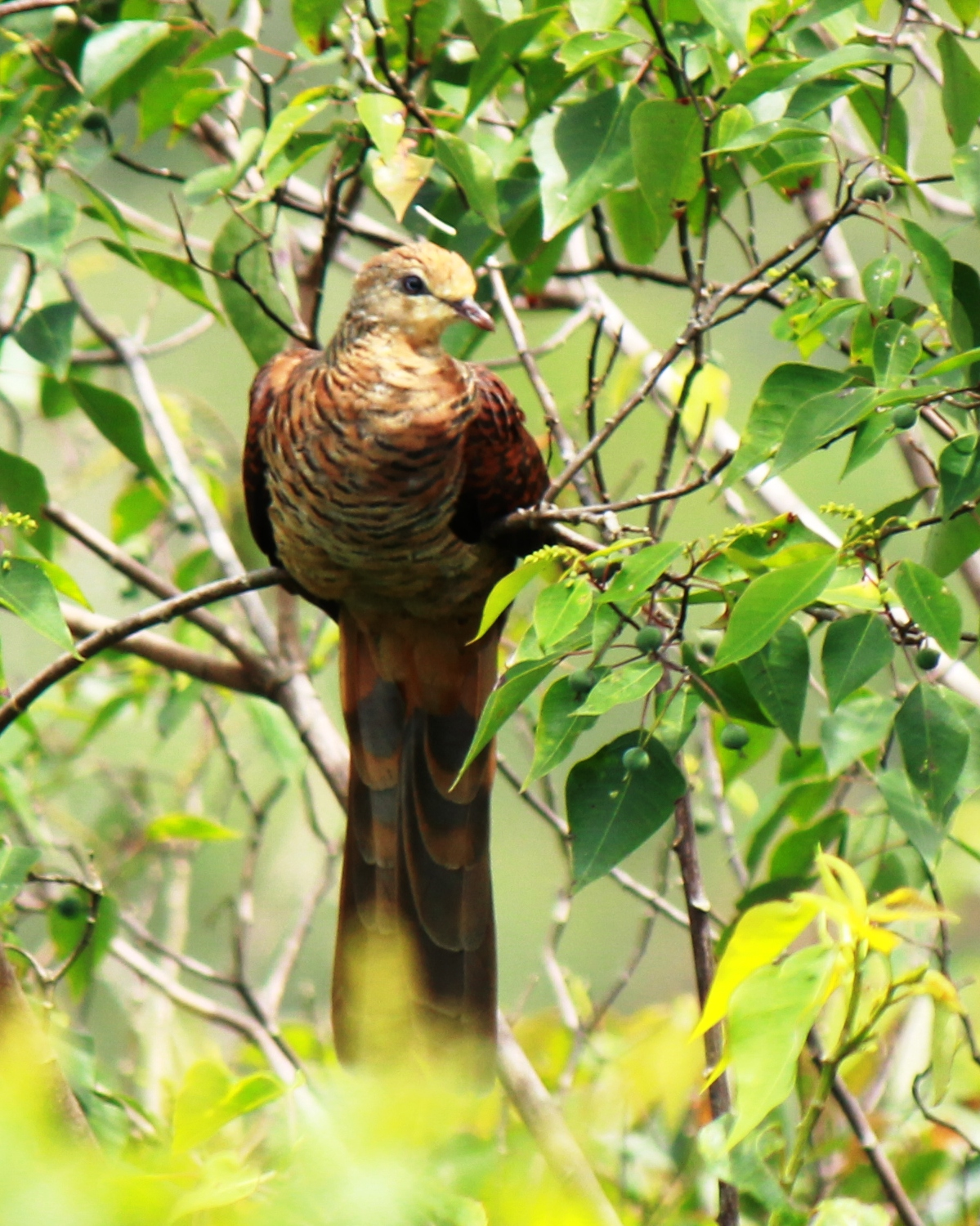 Slender-billed Cuckoo-dove (Macropygia amboinensis) in Mount Mahawu, North Sulawesi, IndonesiaBahasa Indonesia: Uncal Ambon (Macropygia amboinensis) di Gunung Mahawu, Sulawesi Utara